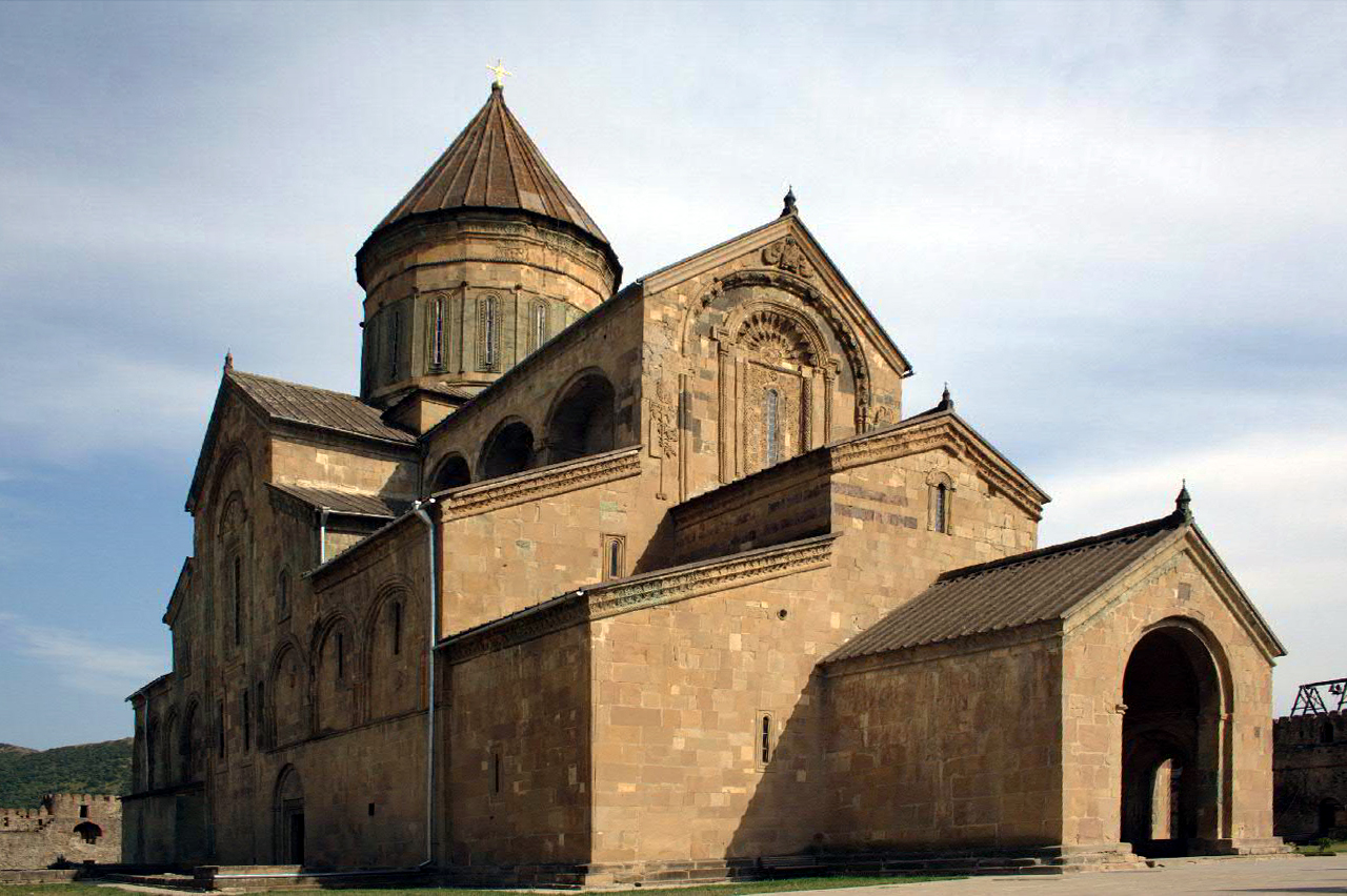 cathedrale Svetitskhoveli